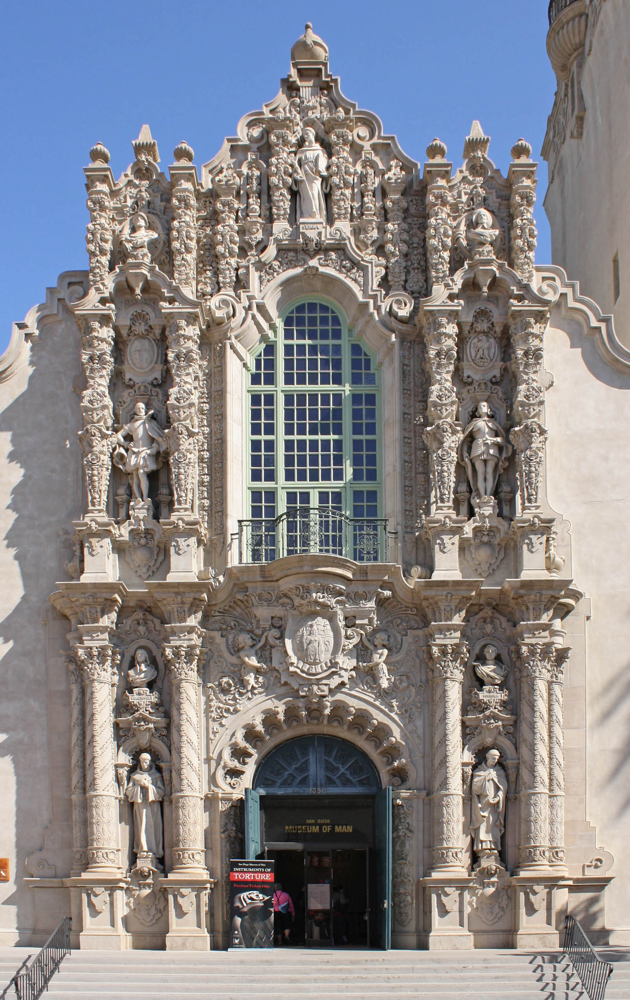 Main entrance of the San Diego Museum of Man, San Diego, California